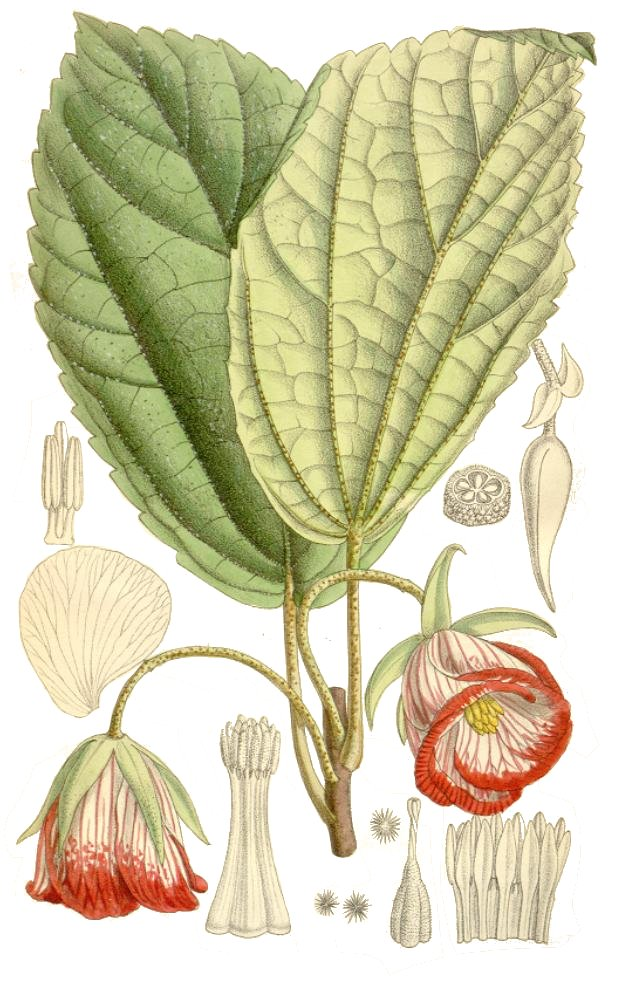 Illustration of Trochetia blackburniana